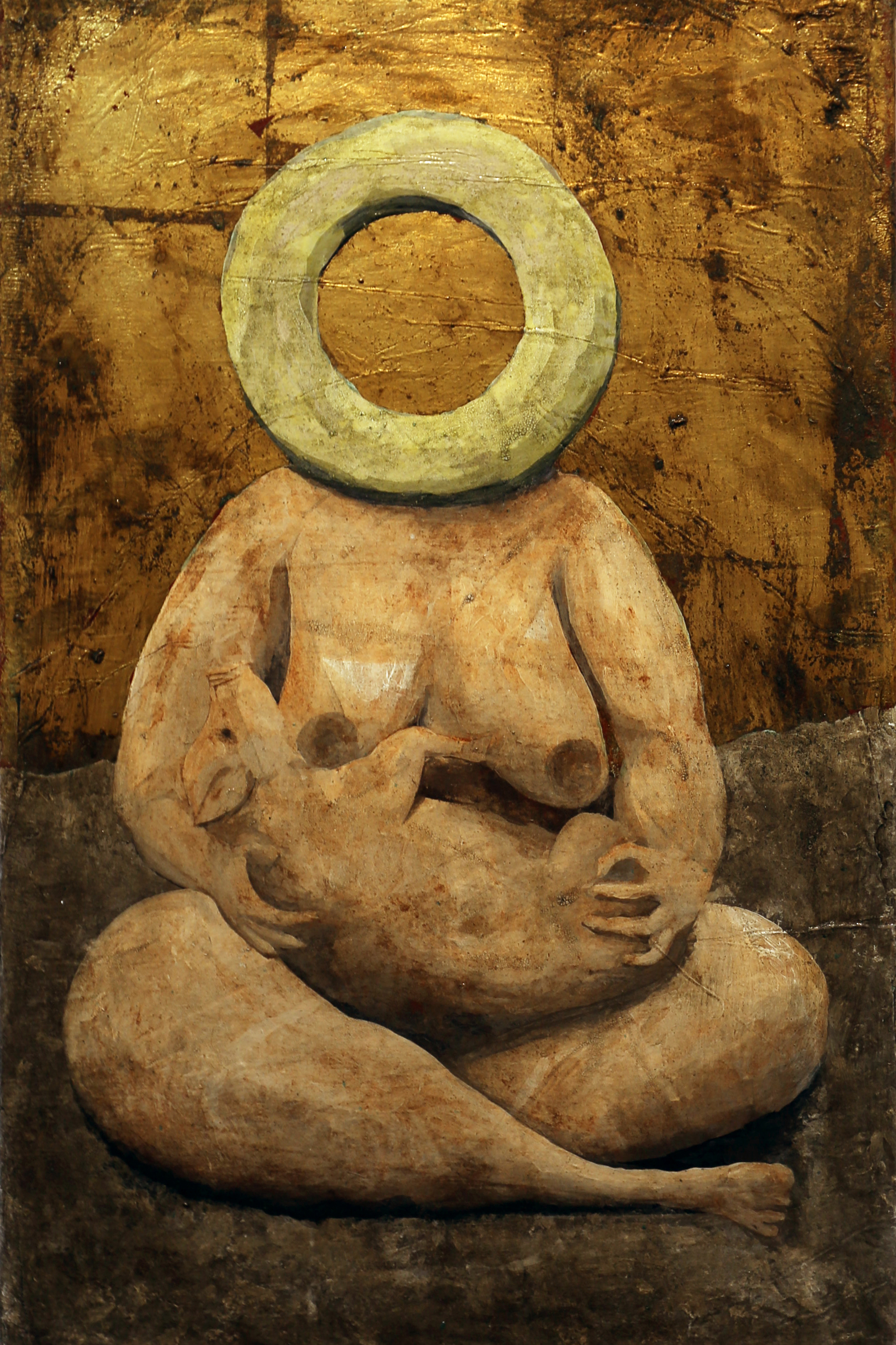 title: The Suckling Pig medium: oil/ acrylic on linen canvas dimensions: 41 cm x 66 cm